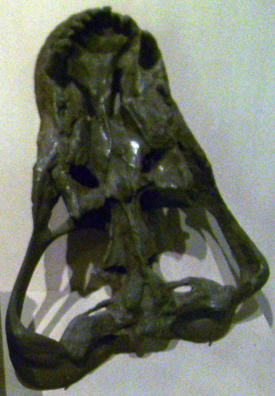 Theriognathus (formerly Notosollasia) laticeps skull at the Museum für Naturkunde, Berlin.